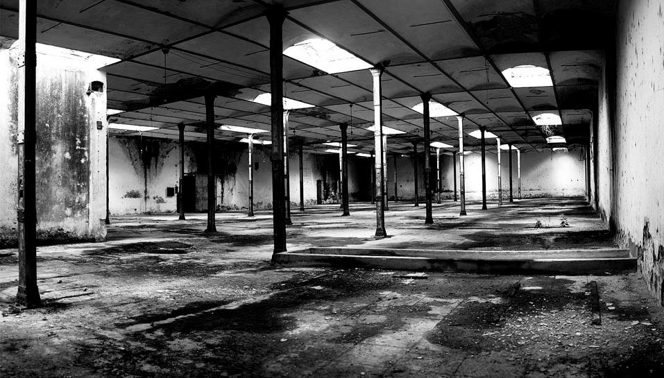 La Ex fábrica de hilados se encuentra en la comunidad de Apizaquito, Apizaco, Tlaxcala